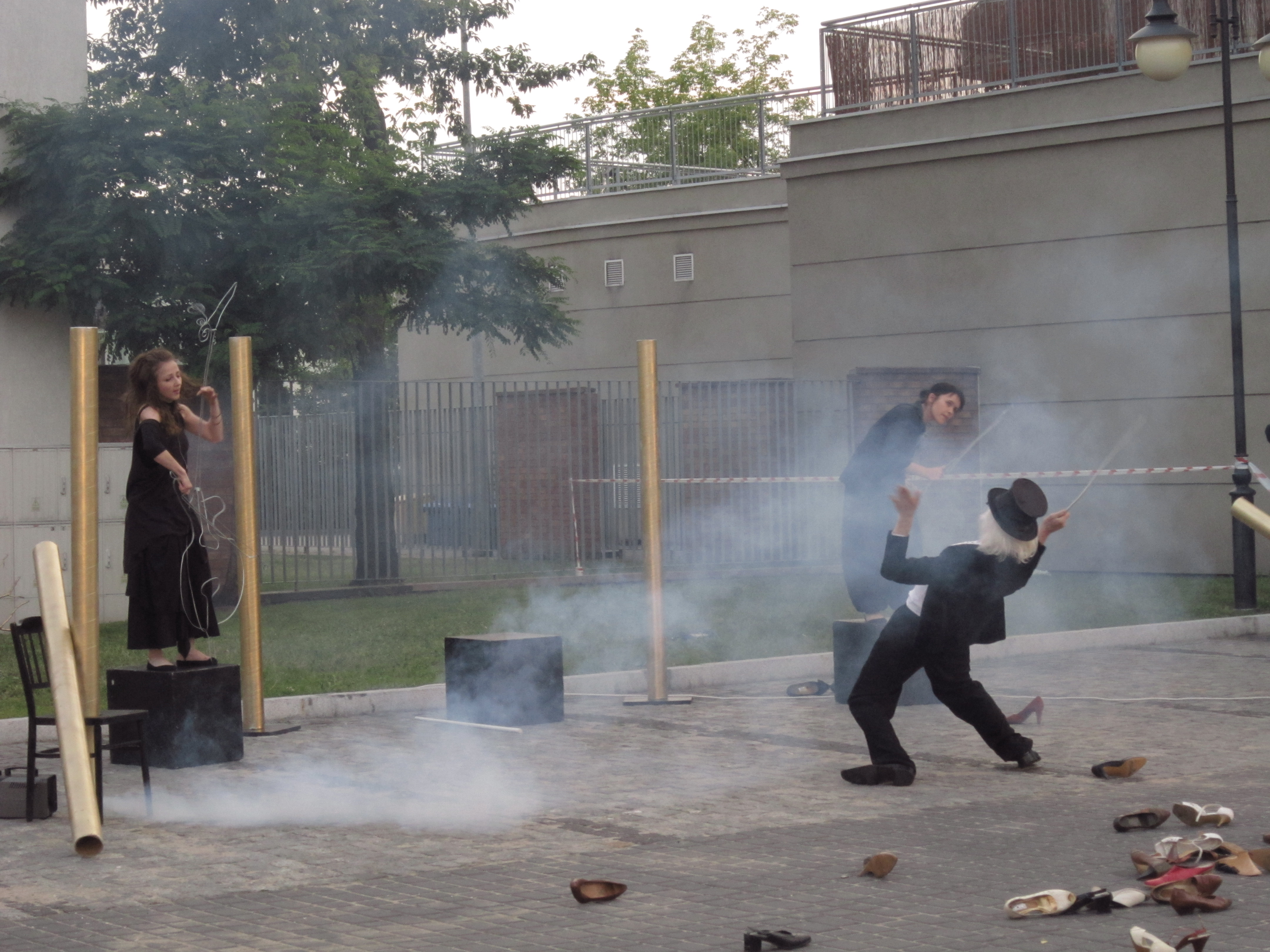 Performance of Teatr Nikoli from Cracow at Brukarnia show in Włocławek.